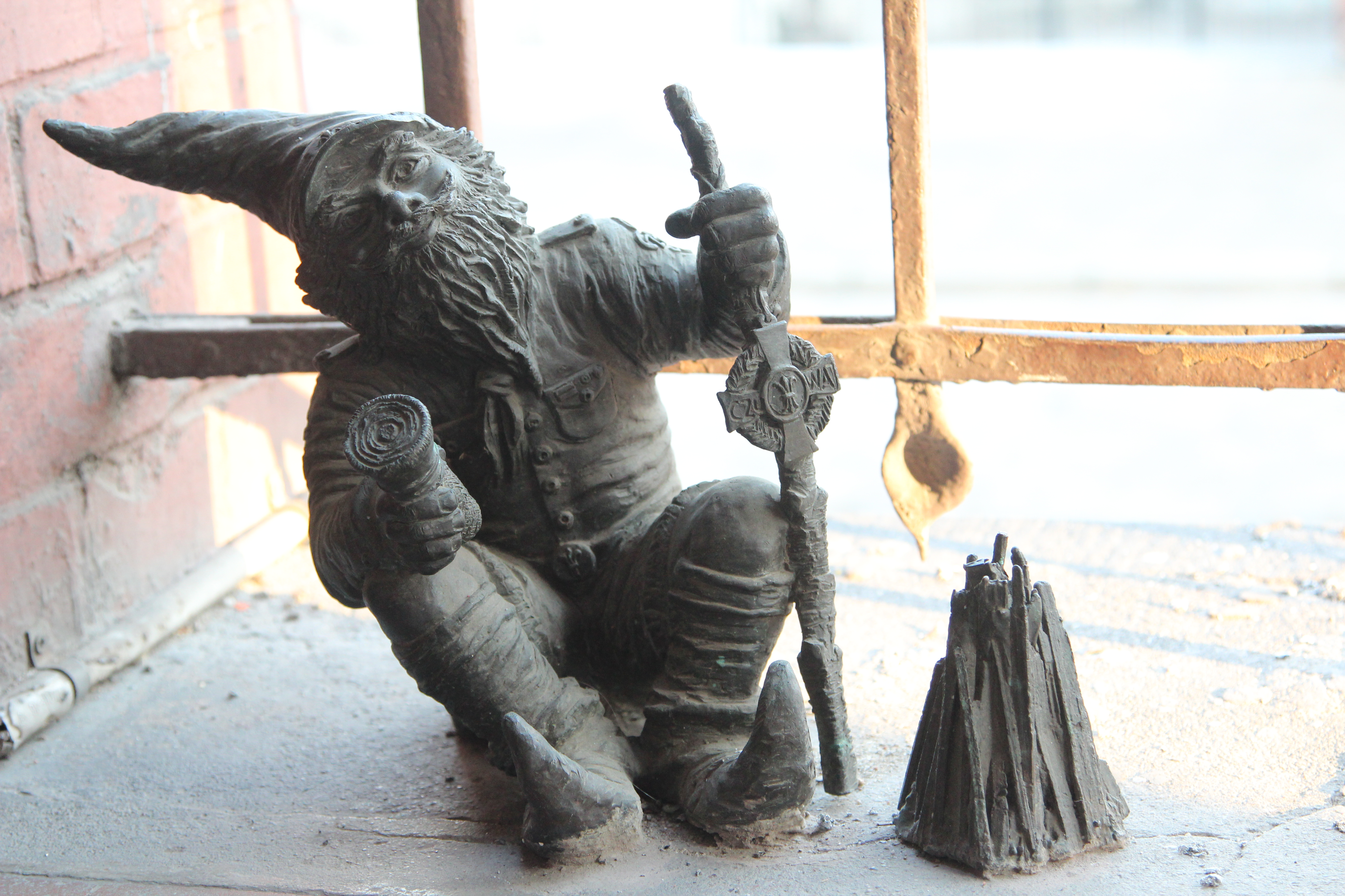 Scout (Harcerz) dwarf in Lower-Silesian Scouting Organisation Headquarters on Nowa 6